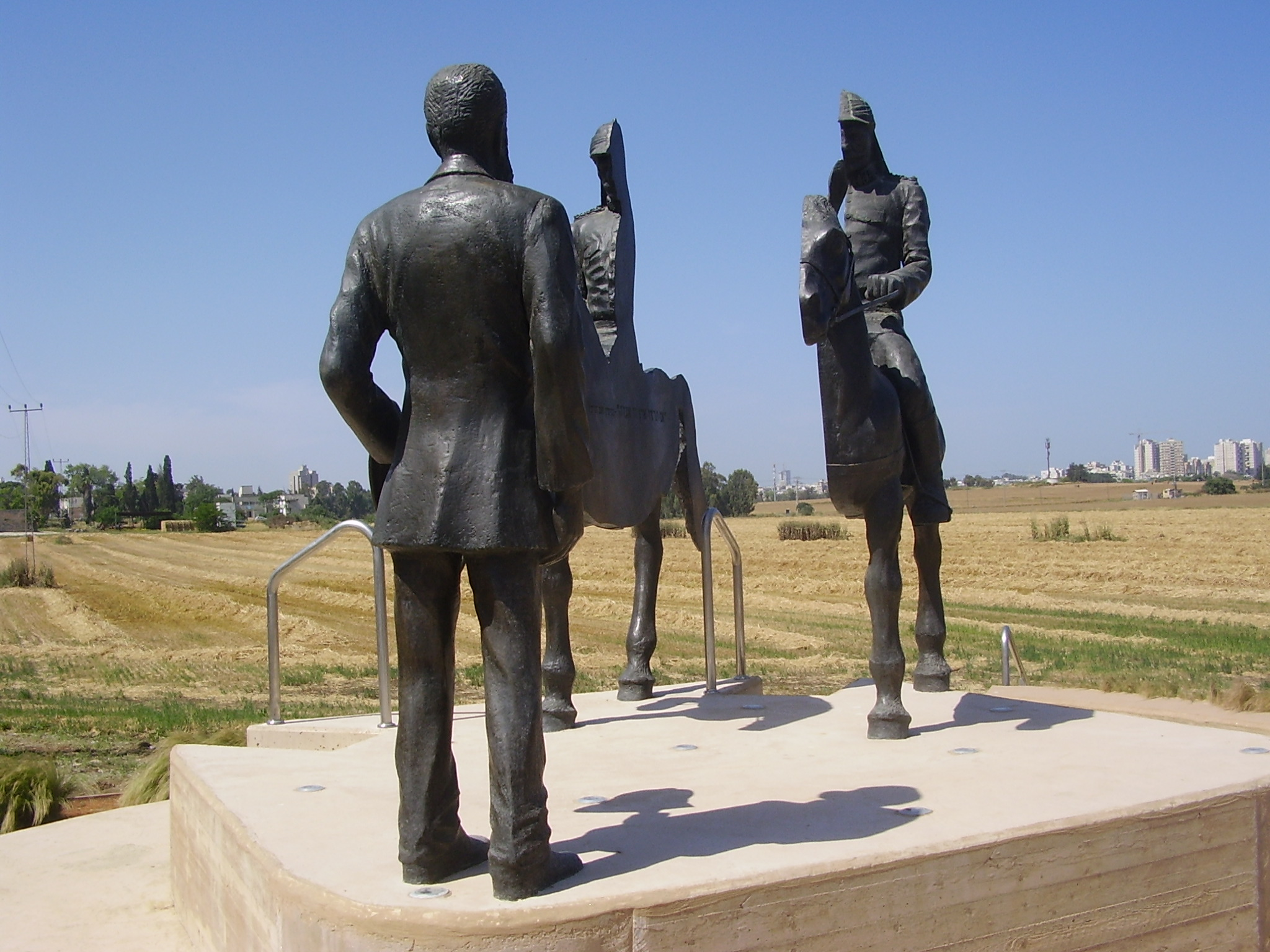 "The meeting between Herzl and Kaiser wilhelm